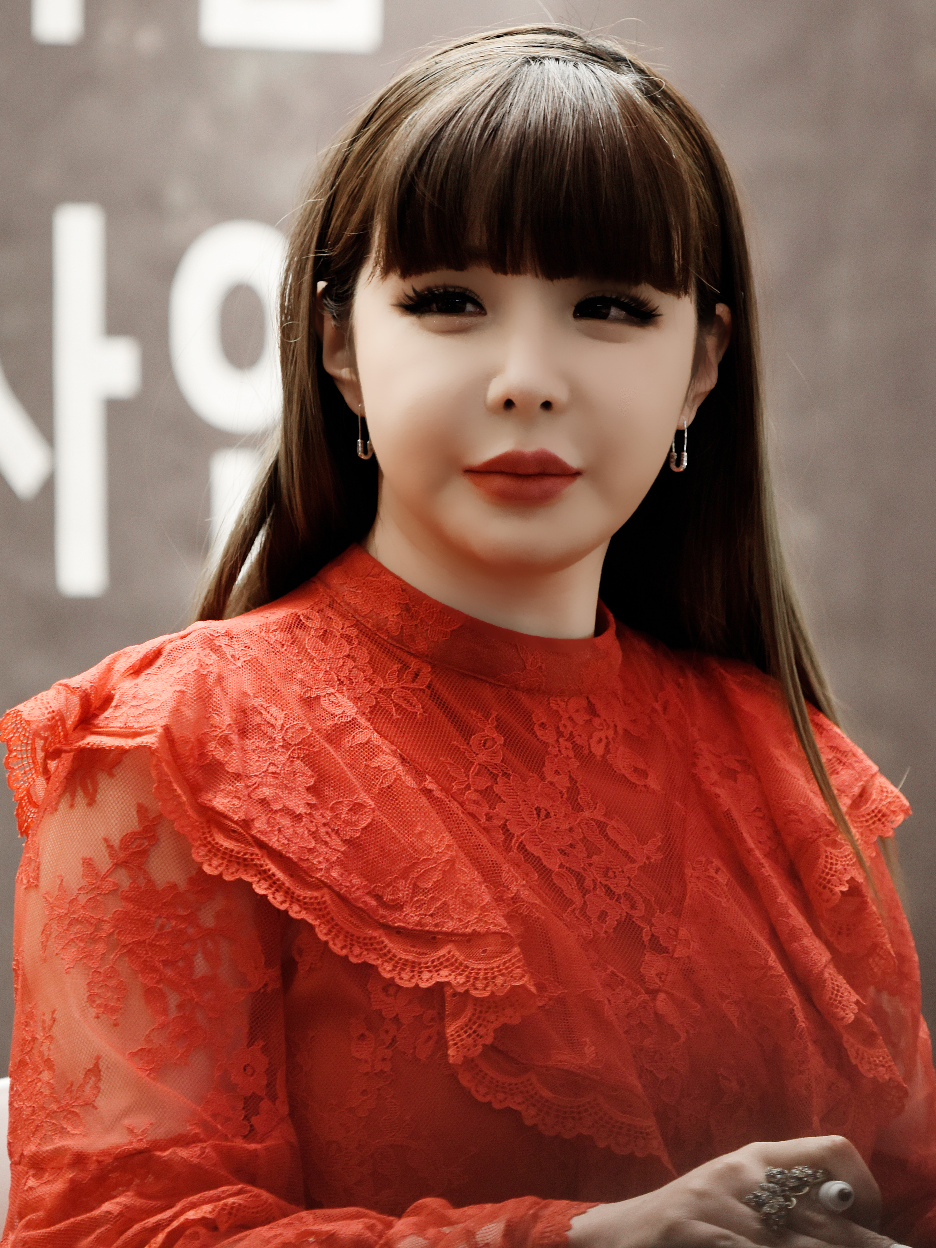 Park Bom at a fansign event at Lotte Department Store in Jamsil on March 30, 2019.